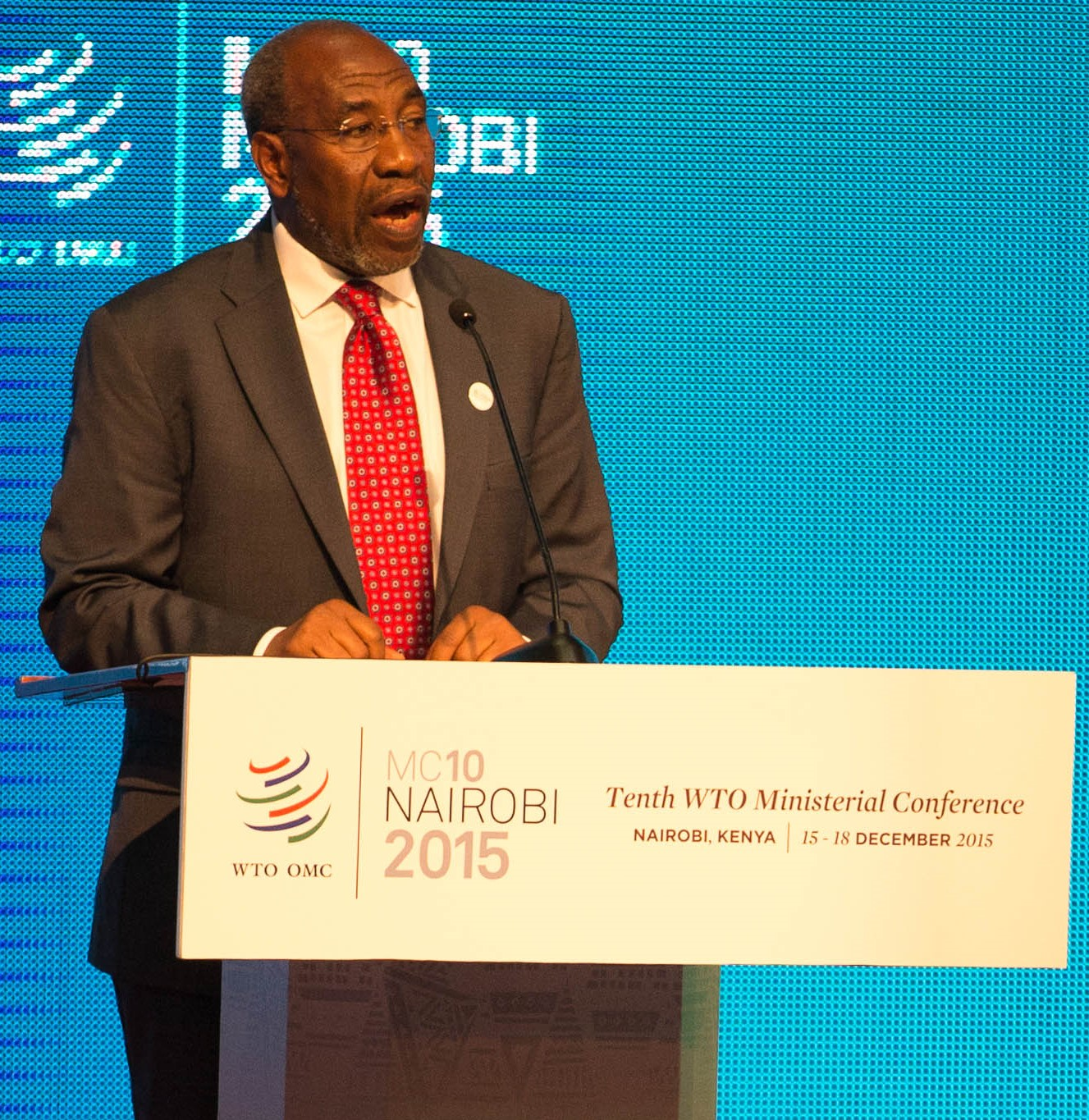 KENYA, Nairobi: In a photograph taken by Make It Kenya 15 December 2015, Ugandan Prime Minister Dr. Ruhakana Rugunda speaks during the opening of the Tenth World Trade Organisation (WTO) ministerial conference in the Kenyan capital, Nairobi; the first to be held on African soil. MAKE IT KENYA PHOTO / STUART PRICE.